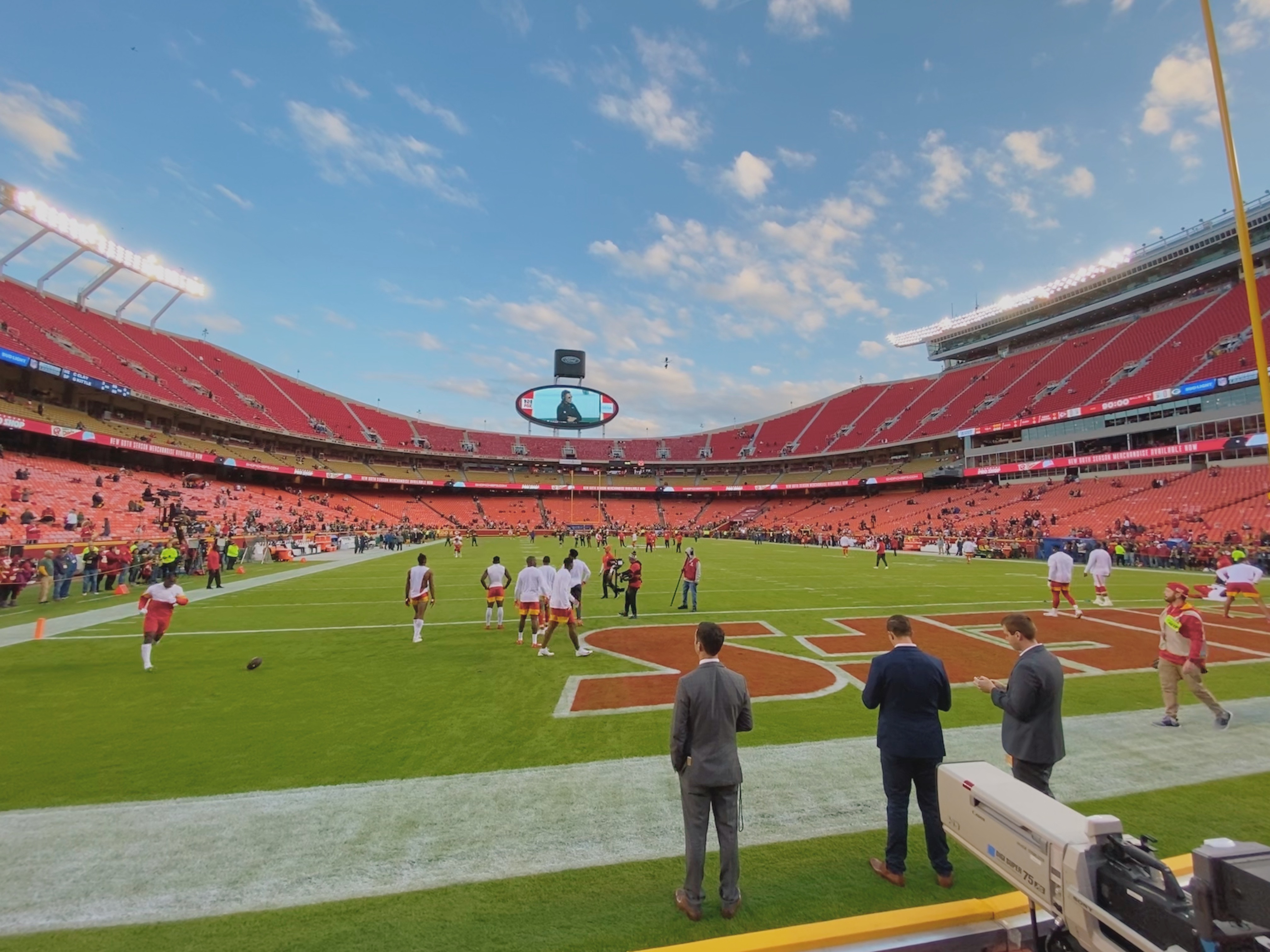 Arrowhead Stadium (October 27, 2019)